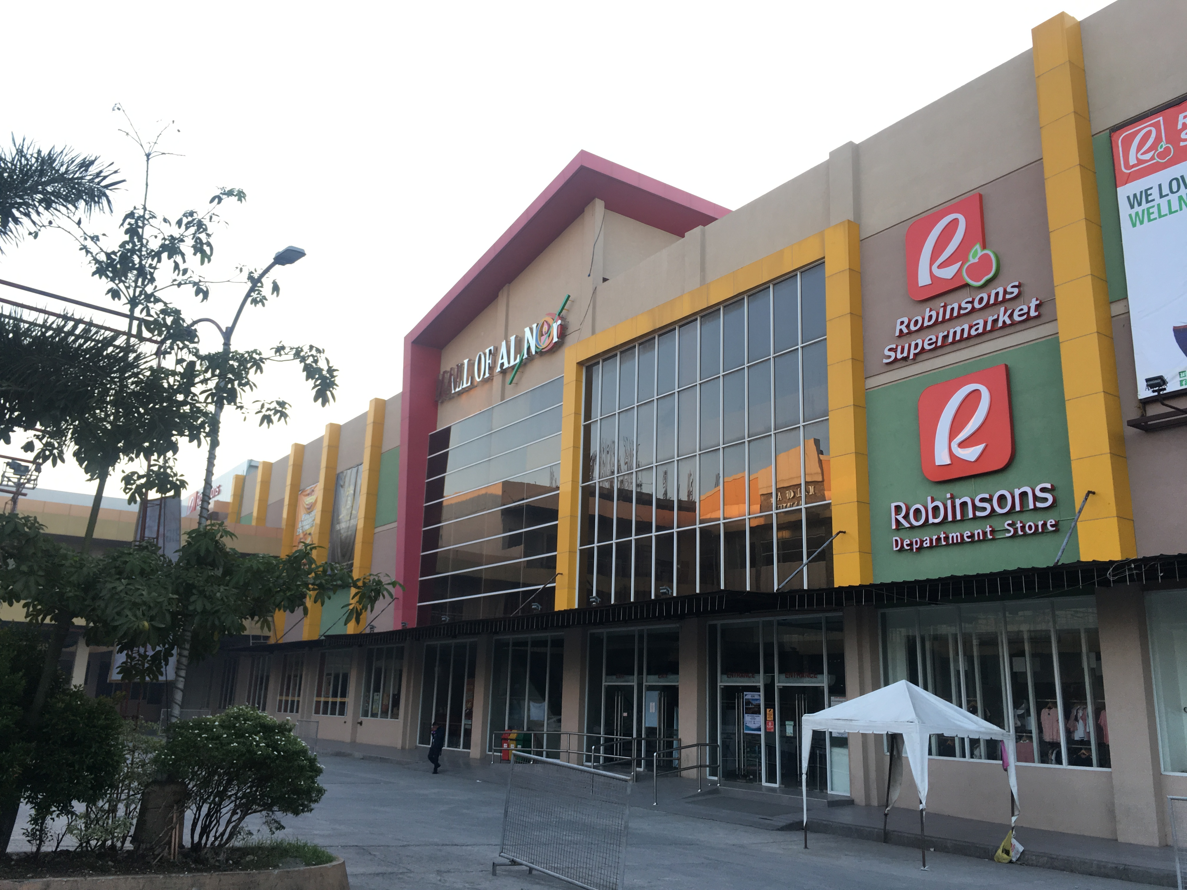 Main building of Mall of Alnor